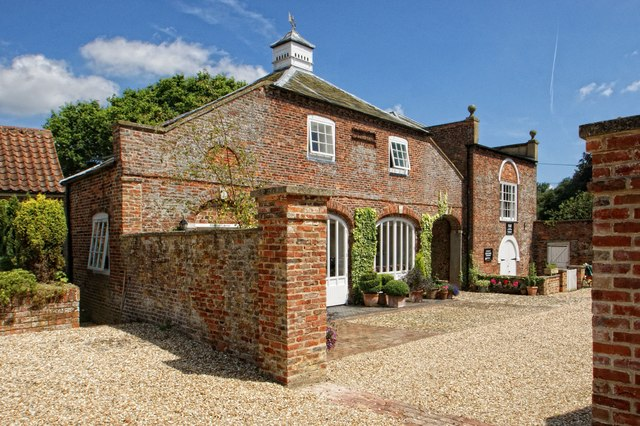 Coach House & Wesleyan Chapel, Raithby